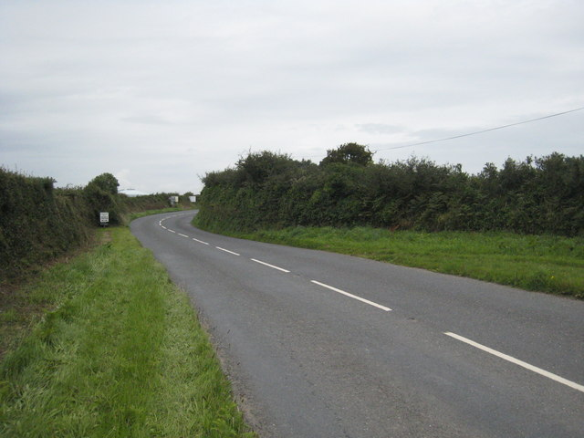 Dingerein Castle This bend in the A3078 curves around the rampart of Dingerein Castle, an iron age hill fort. The hedge alongside the road is the outer rampart and there are remains of an inner rampart in the field behind. These are not visible from the road but can clearly be seen on an aerial view. The castle is said to be where lie the remains of King Gereint or Gerren of Dumnonia, killed at the Battle of Carrick in 598.